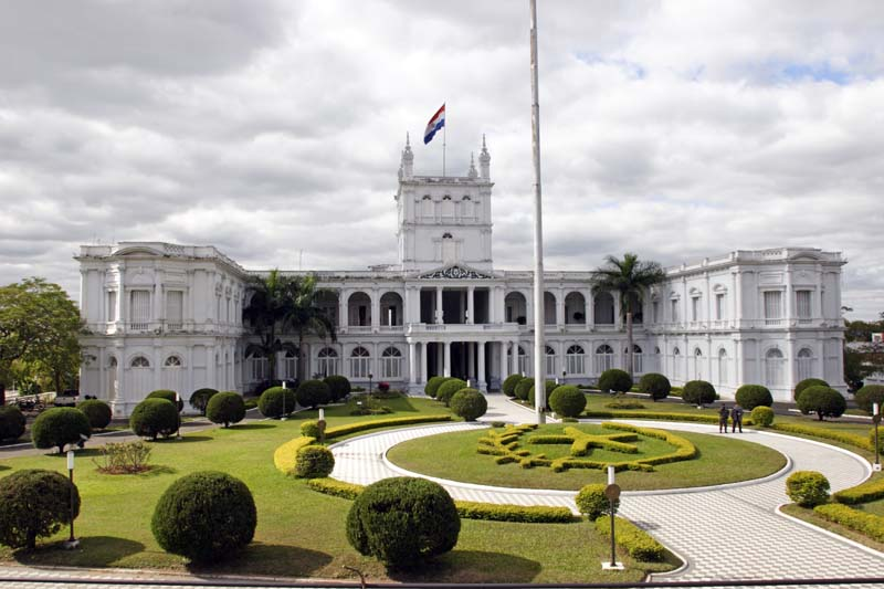 This is a beautiful photograph of the Palace of López family, the Paraguayan government headquarters. It started in 1857 by architect Alonso Taylor. Asunción Paraguay.